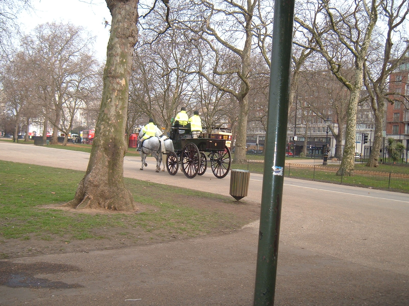 Horses and wagon in Hyde Park, London, England.